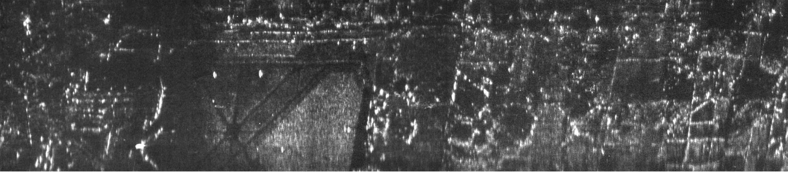 First successful focused airborne synthetic aperture image, Willow Run Airport and vicinity, August 1957. Flown by Radar Laboratory, Willow Run Labs, University of Michigan. Best resolution about 50 feet (17 meters).